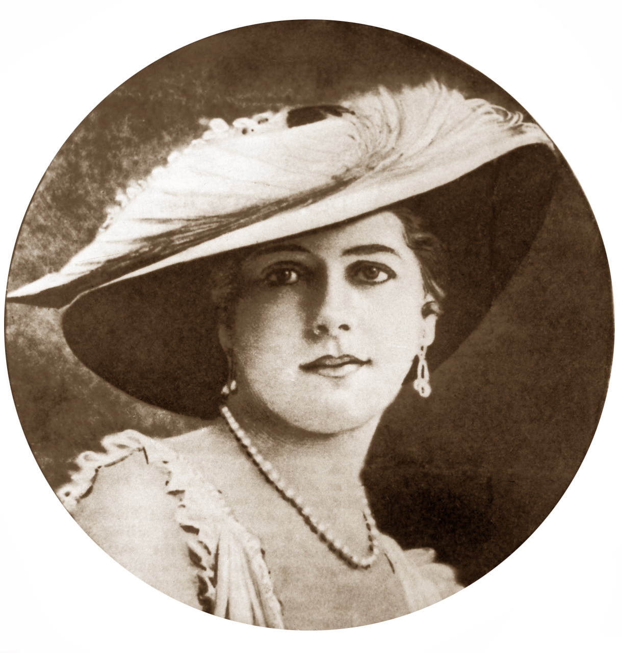 Margaretha Geertruida "Grietje" Zelle, known as Mata Hari (1876-1917), famous spy and exotic dancer